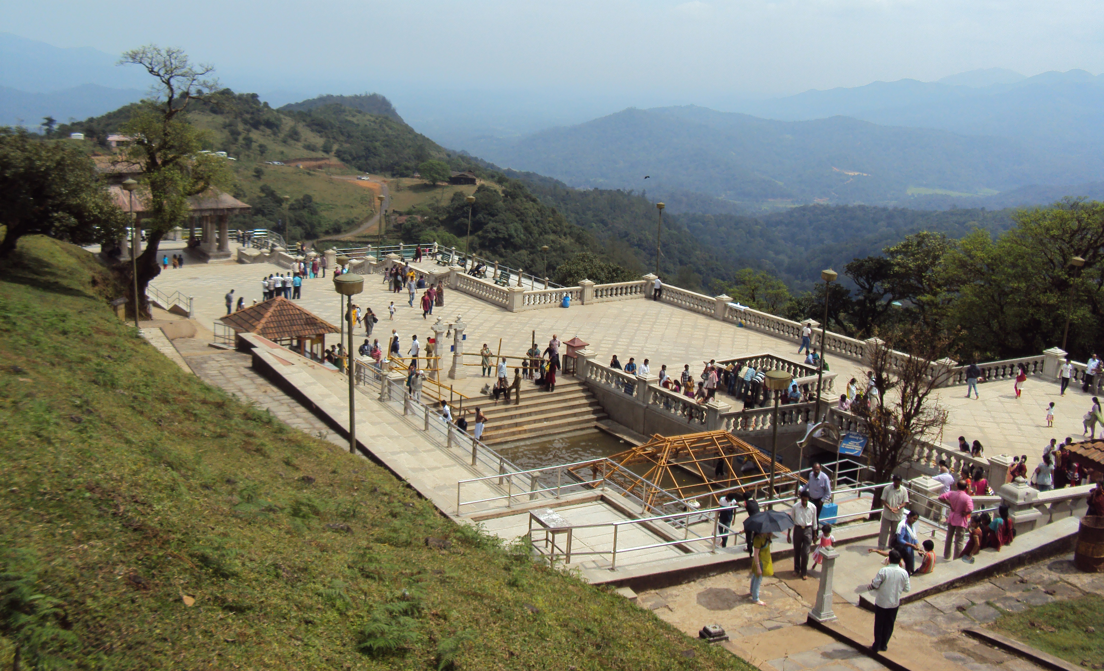 View of Talacauvery temple from Talacauvery mountain